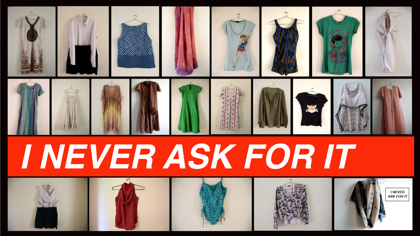 Poster Image Testimonials Of Clothing: 'I Never Ask For It' / long term term mission to arrest blame. The initiative has been founded in India, by Blank Noise, and is being built in collaboration with women / allies in the country/ globally. For more information